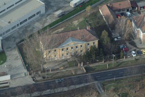 Rétság - castle, Hungary, aerialphotography